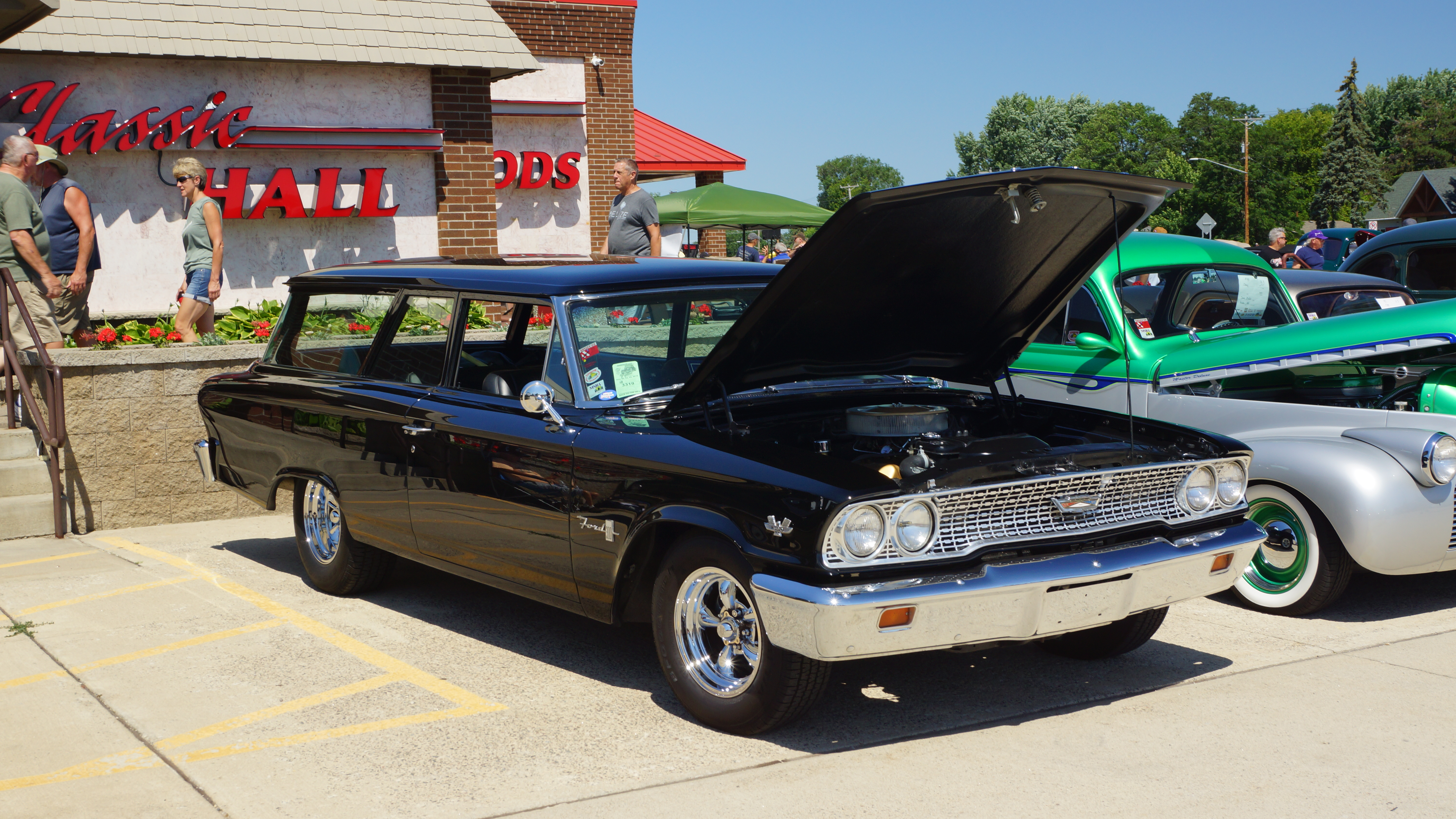 Classic Rides & Rods Classic Car Show 220 Poplar Lane Annandale, Minnesota July 8, 2018 *Click here for more car pictures by make Click here for Car Event pictures by year. Or here for my Car Crazy Tumblr site. Or on Twitter @DVS1mn.